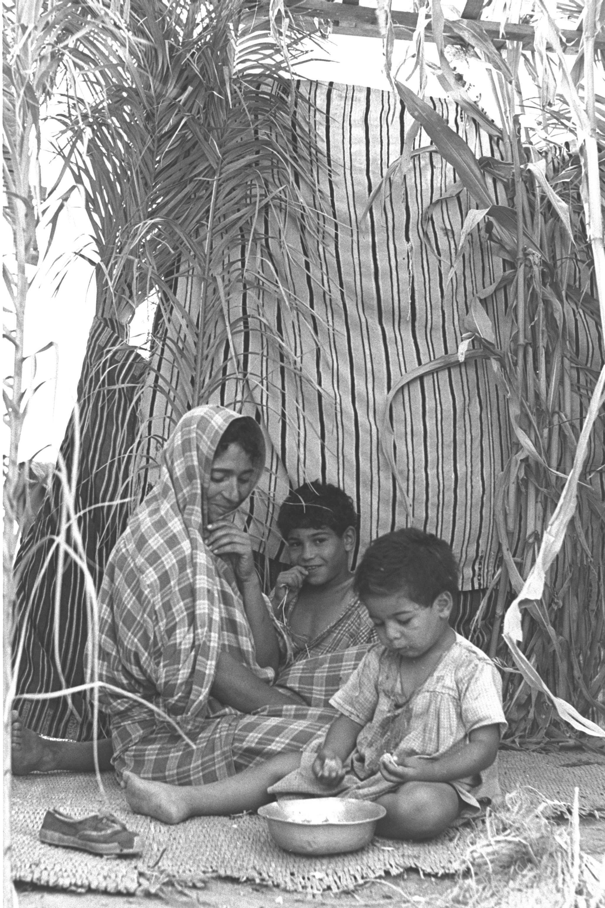 A family in a sukkah at Moshav Porat near Tel Mond. Photo by Bruner Ilan.